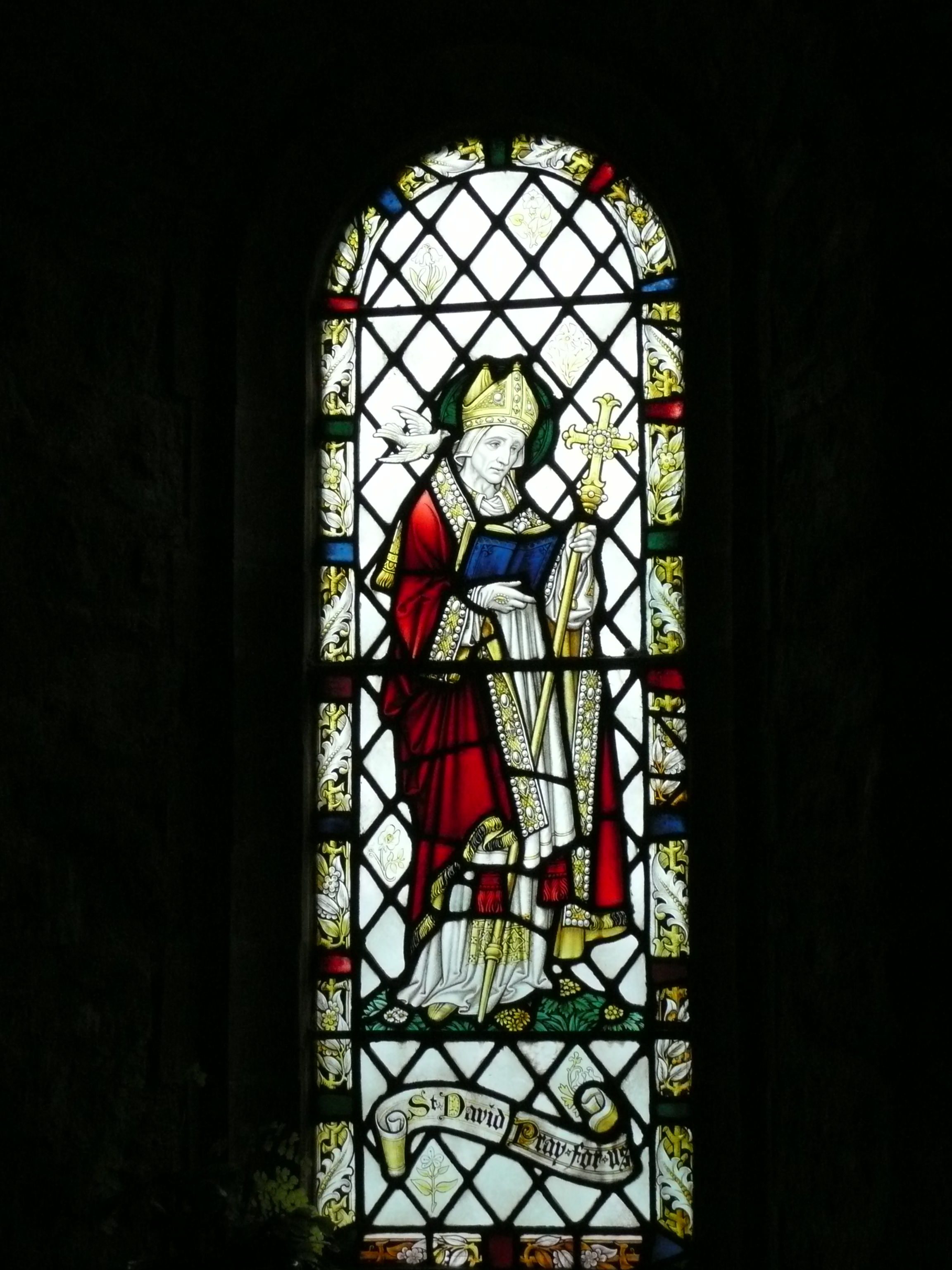 Stained glass window of St David in Chapel of our lady and St Non